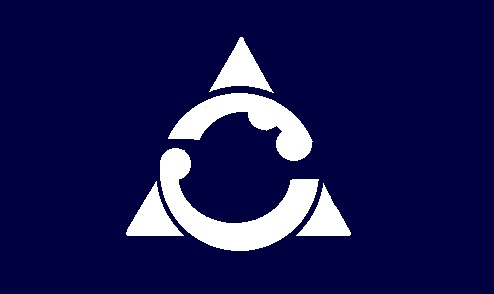 Flag of Gobo Wakayama